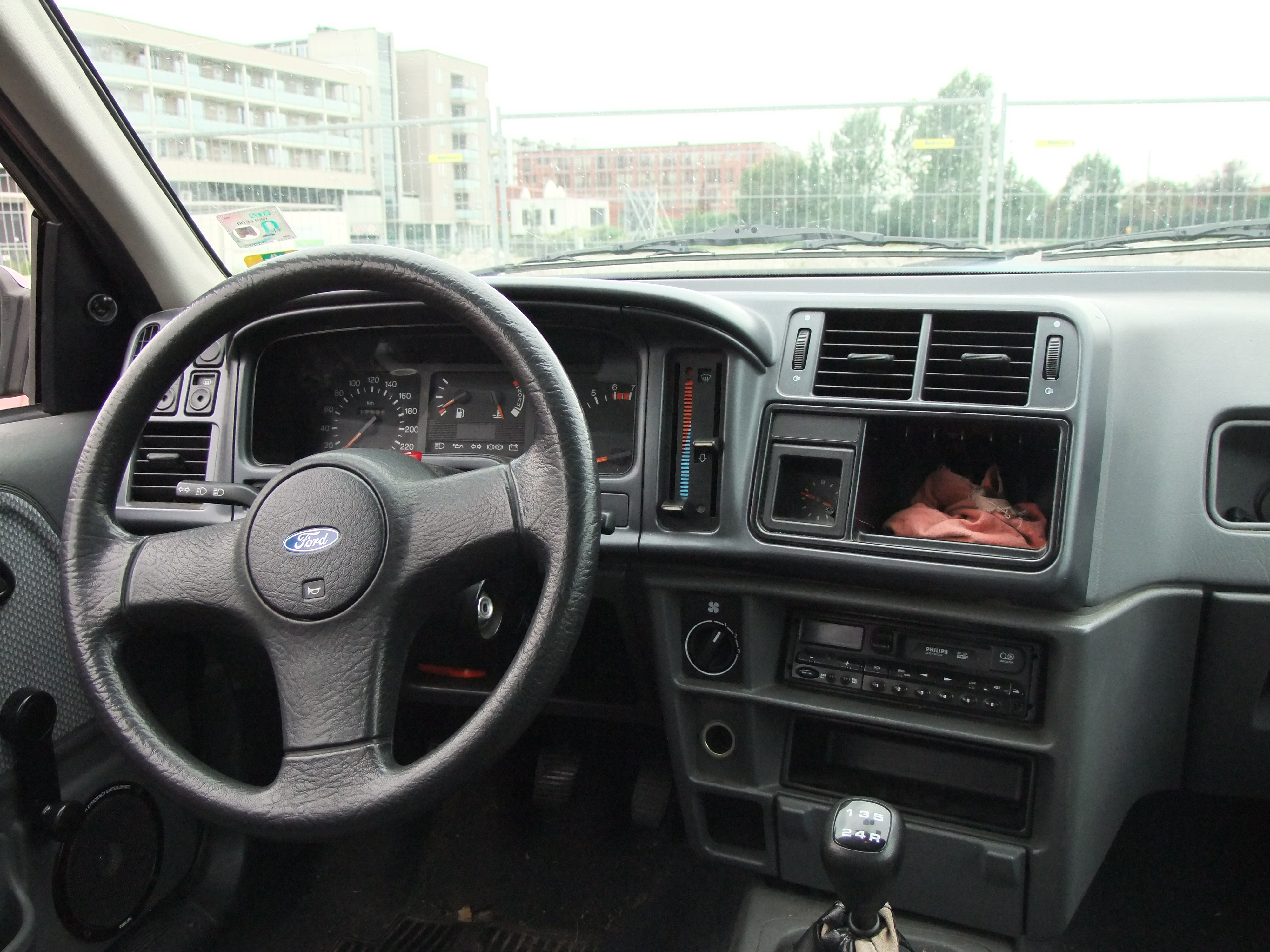 1992 Ford Sierra MkIII dashboard